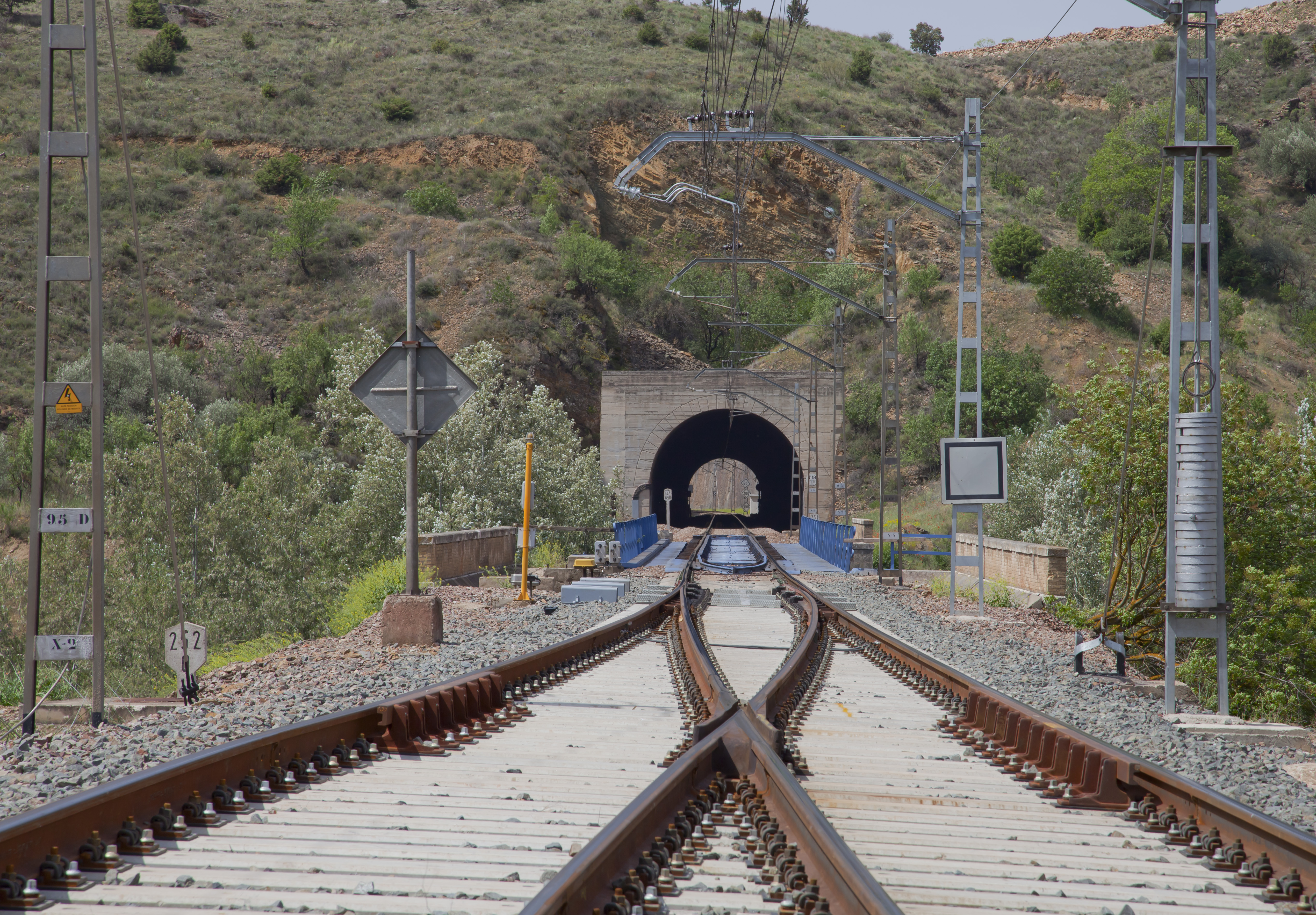 Train station, Embid de la Ribera, Spain